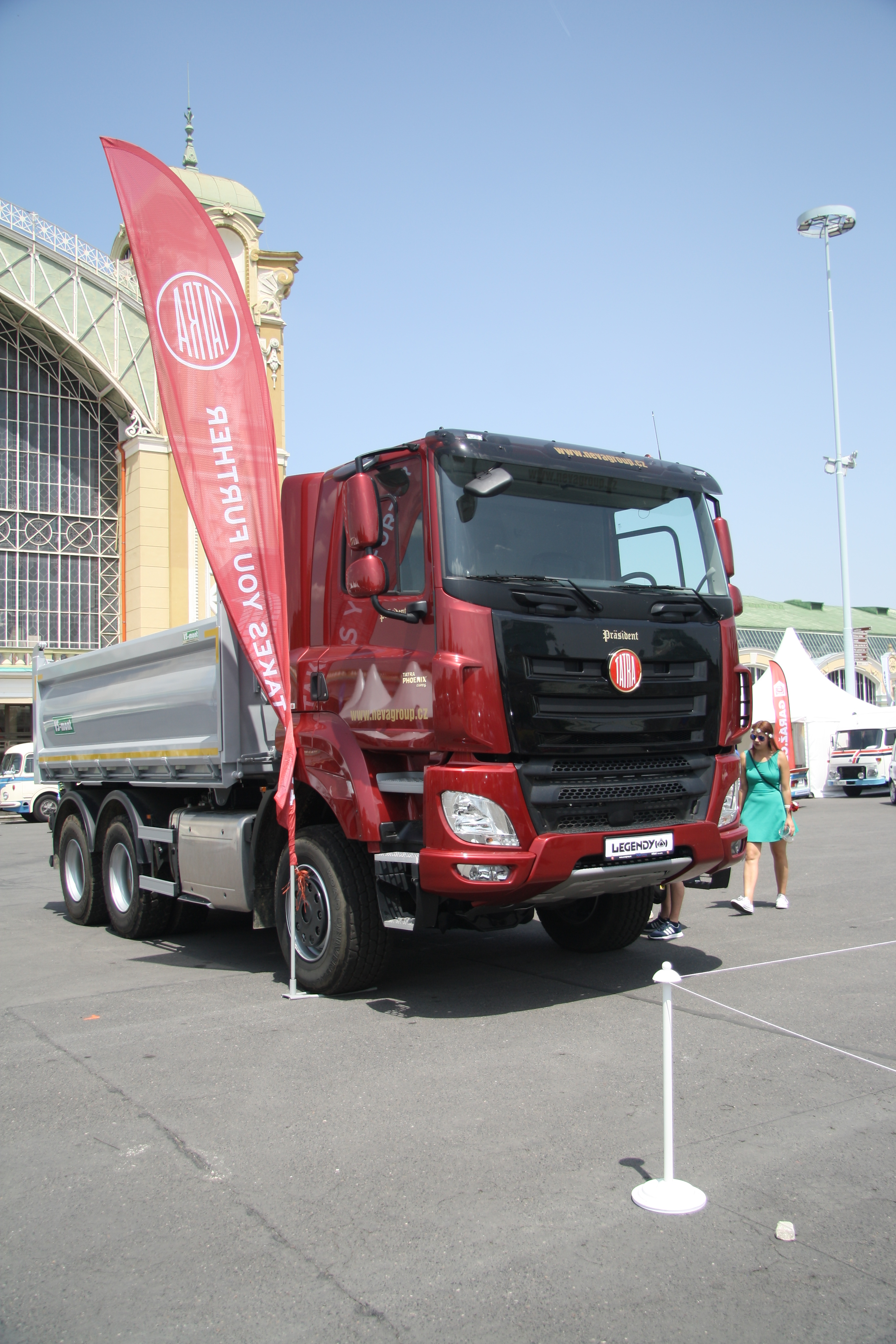 Tatra Phoenix at Legendy 2018 in Prague.